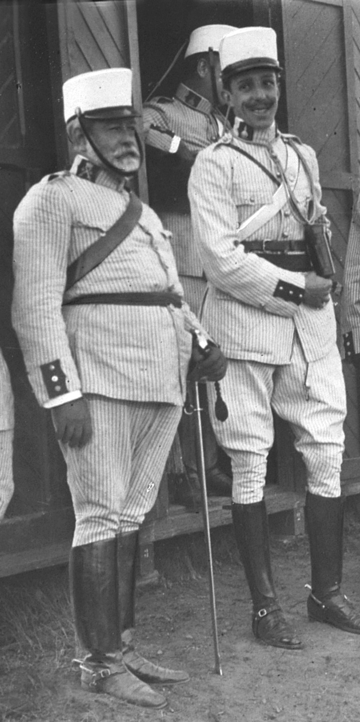 King Alfonso XIII of Spain and General Marina wearing the iconic "rayadillo" colonial uniform in North Africa.